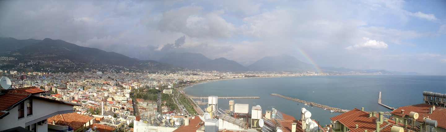 rainbow over Alanya, Turkey from March 26, 2006